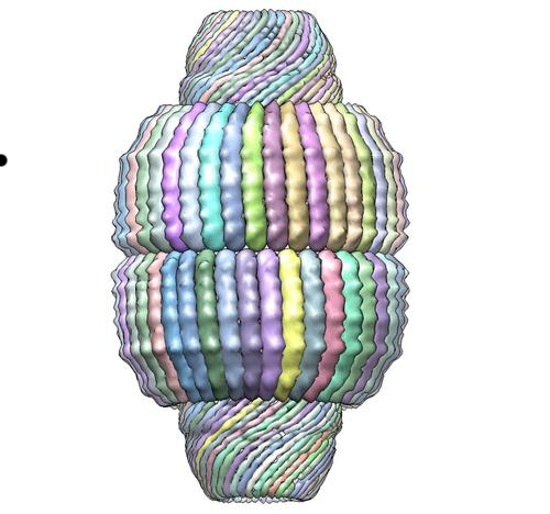 Vault PDB structure "Data files contained in the PDB archive (ftp://ftp.wwpdb.org) are free of all copyright restrictions and made fully and freely available for both non-commercial and commercial use. Users of the data should attribute the original authors of that structural data. By using the materials available in the PDB archive, the user agrees to abide by the conditions described in the PDB Advisory Notice. "Molecular images from RCSB PDB Structure Summary pages are available under the same conditions. The authors of the structural data producing the image and the RCSB PDB should be cited." PDB ID: 2ZUO H. Tanaka, K. Kato, et al. The Structure of Rat Liver Vault at 3.5 Angstrom Resolution Science 323 pp. 384 (2009)